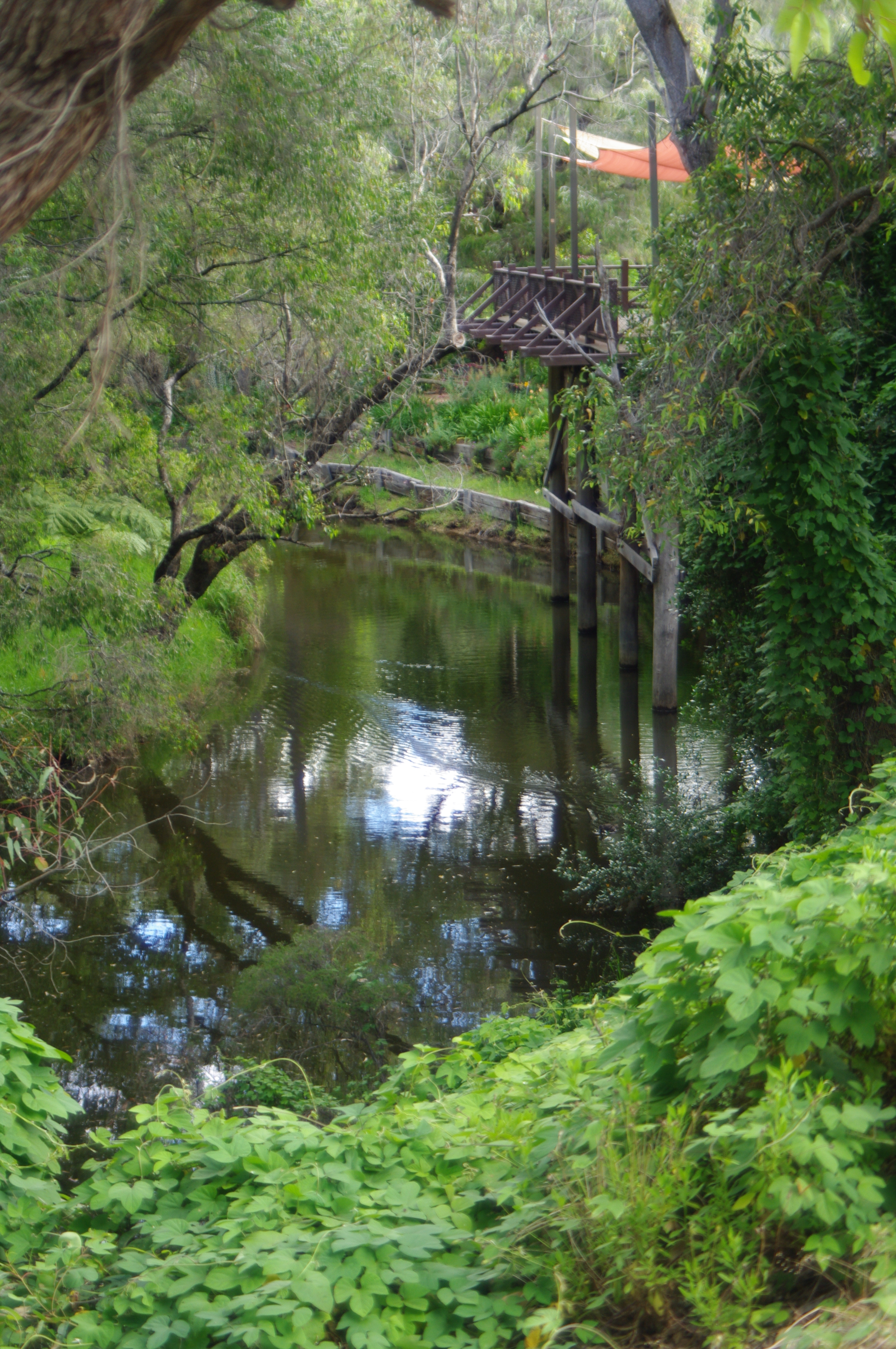 Stirling Cottage in Harvey, Western Australia was built by the first Governor of Western Australia in 1830's. The building was damaged during storms in 1970 and restored using the materials recovered from the original house Harvey river